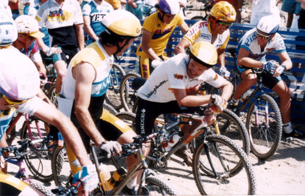 In 1989 Ned Overend and Tinker Juarez competed in the Cindy Whitehead Desert Classic near Palm Springs, California.